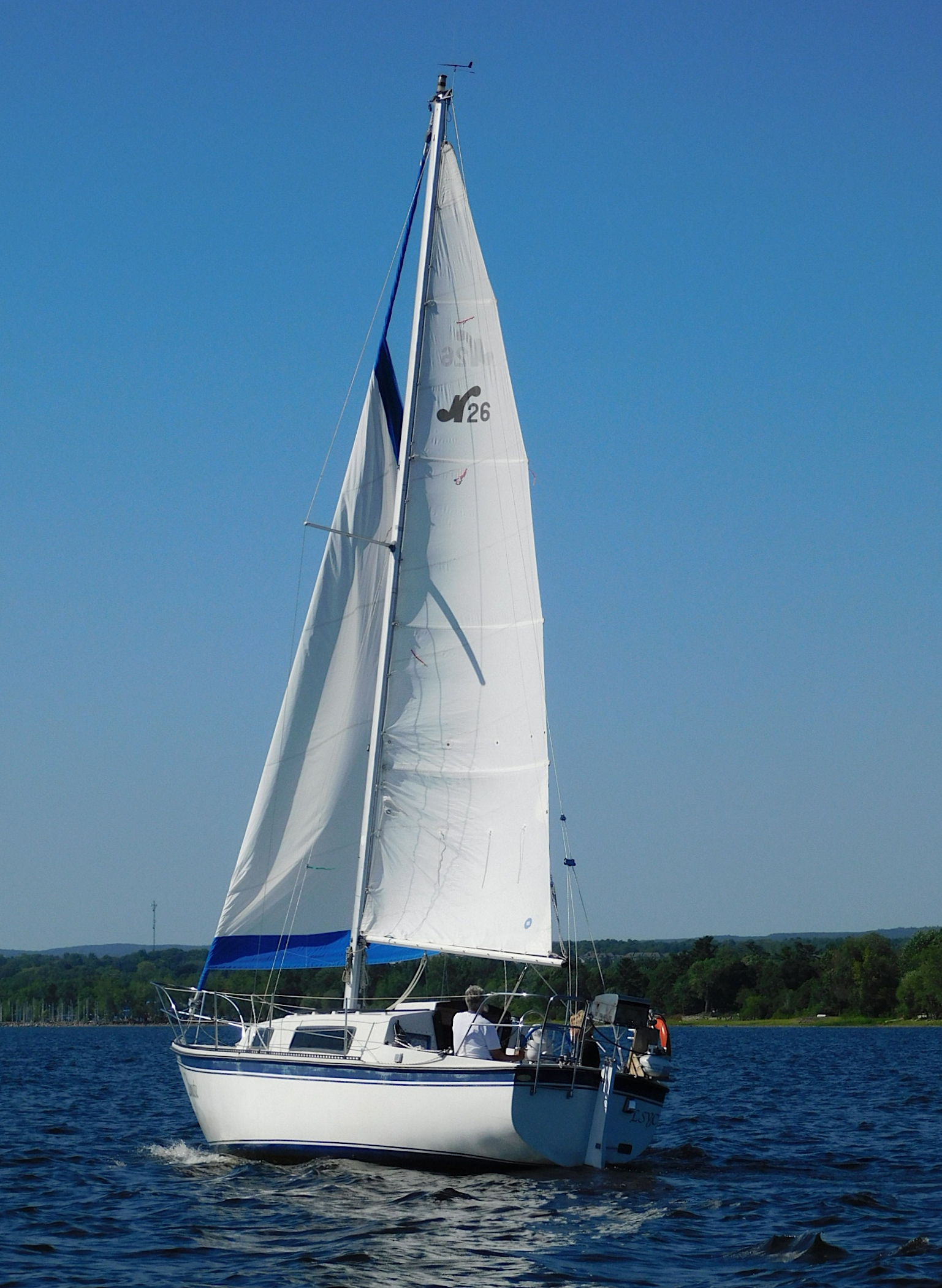 A Nash 26 sailboat named Namaste.